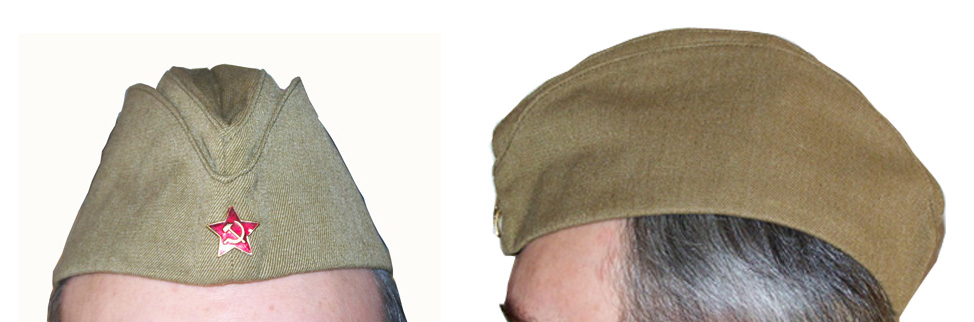 Soviet side cap (pilotka). Front and left side view.